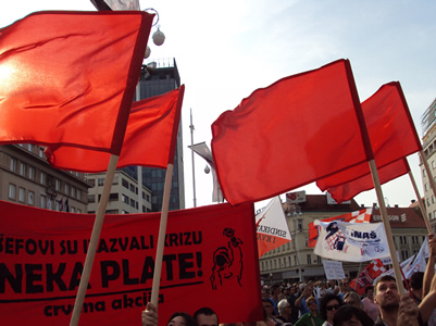 Red Action on Trade-union demonstrations